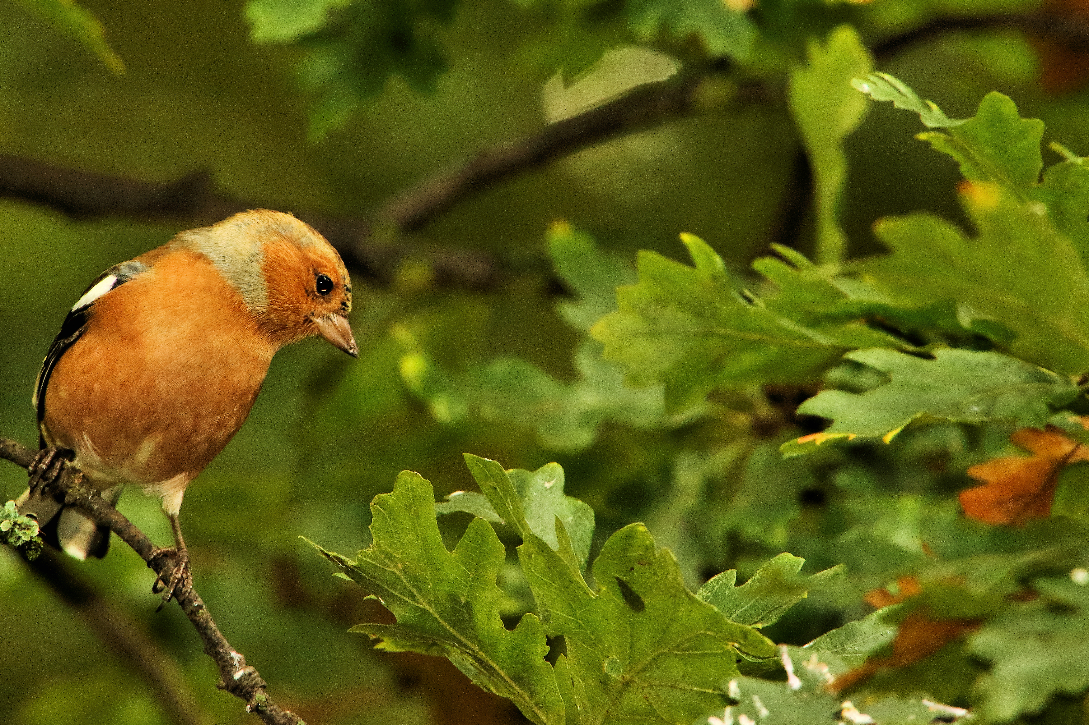 Chaffinch - RSPB Minsmere